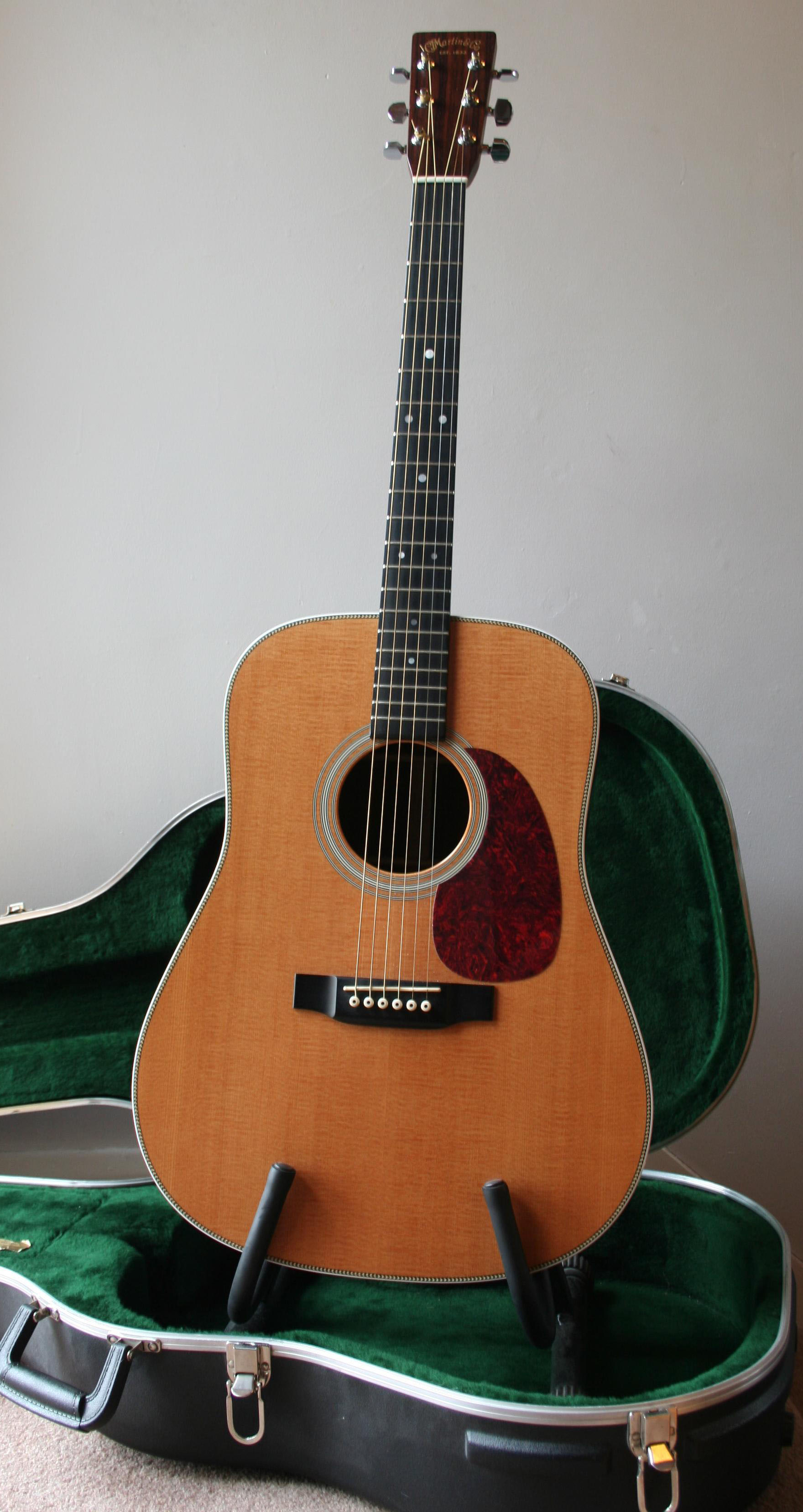 HD-28 Dreadnought in moulded case